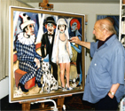 Artist: Willy E. Nocken